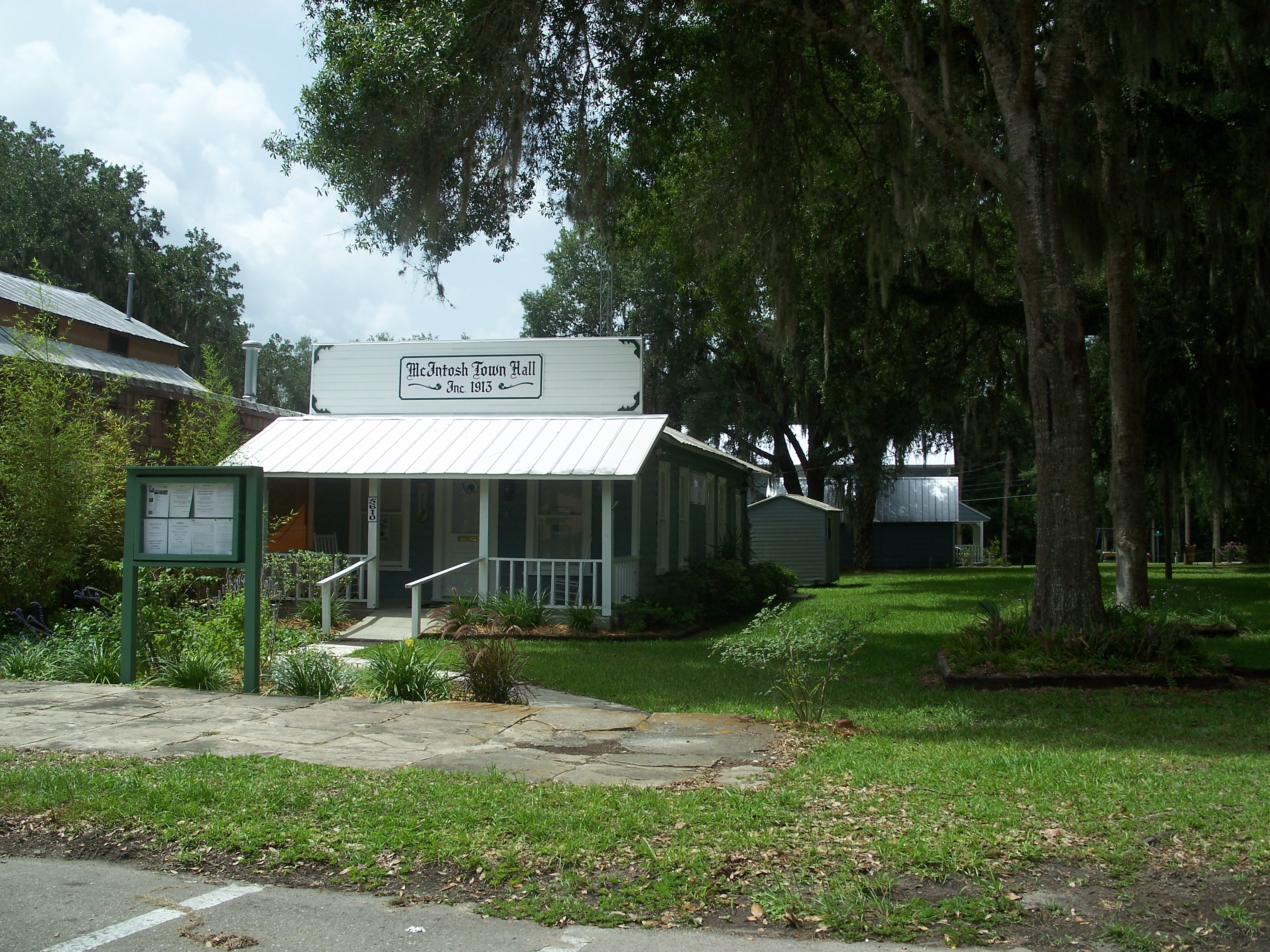 McIntosh, Florida: McIntosh Historic District: Town hall.